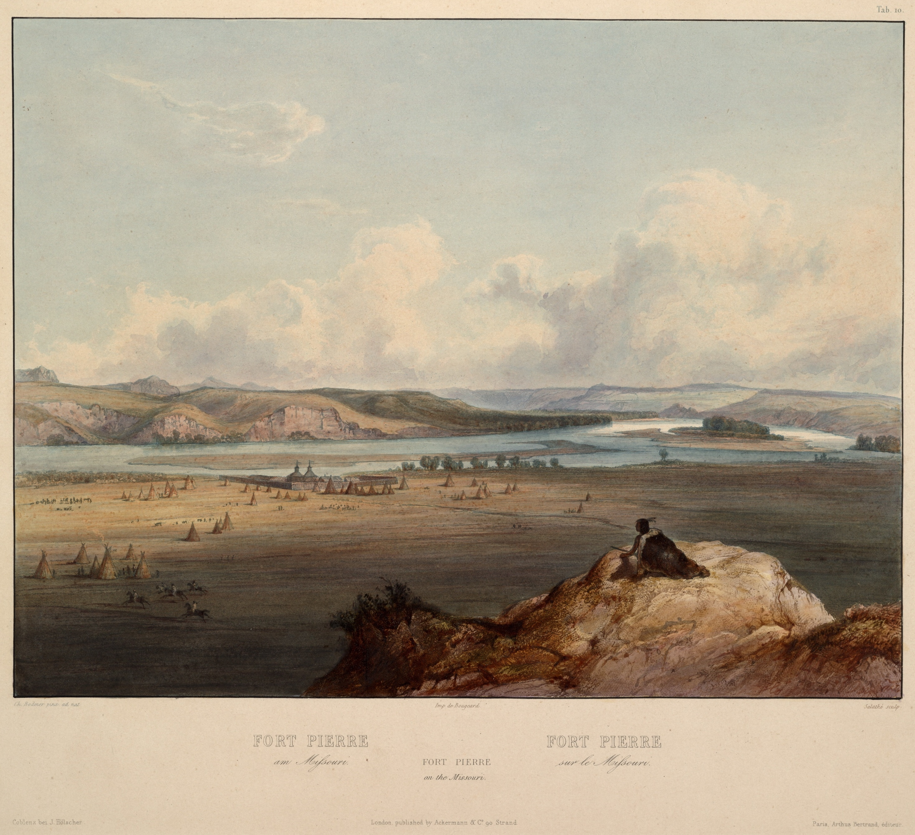 The Trading post Fort Pierre in present South Dakota as seen by Karl Bodmer in 1833